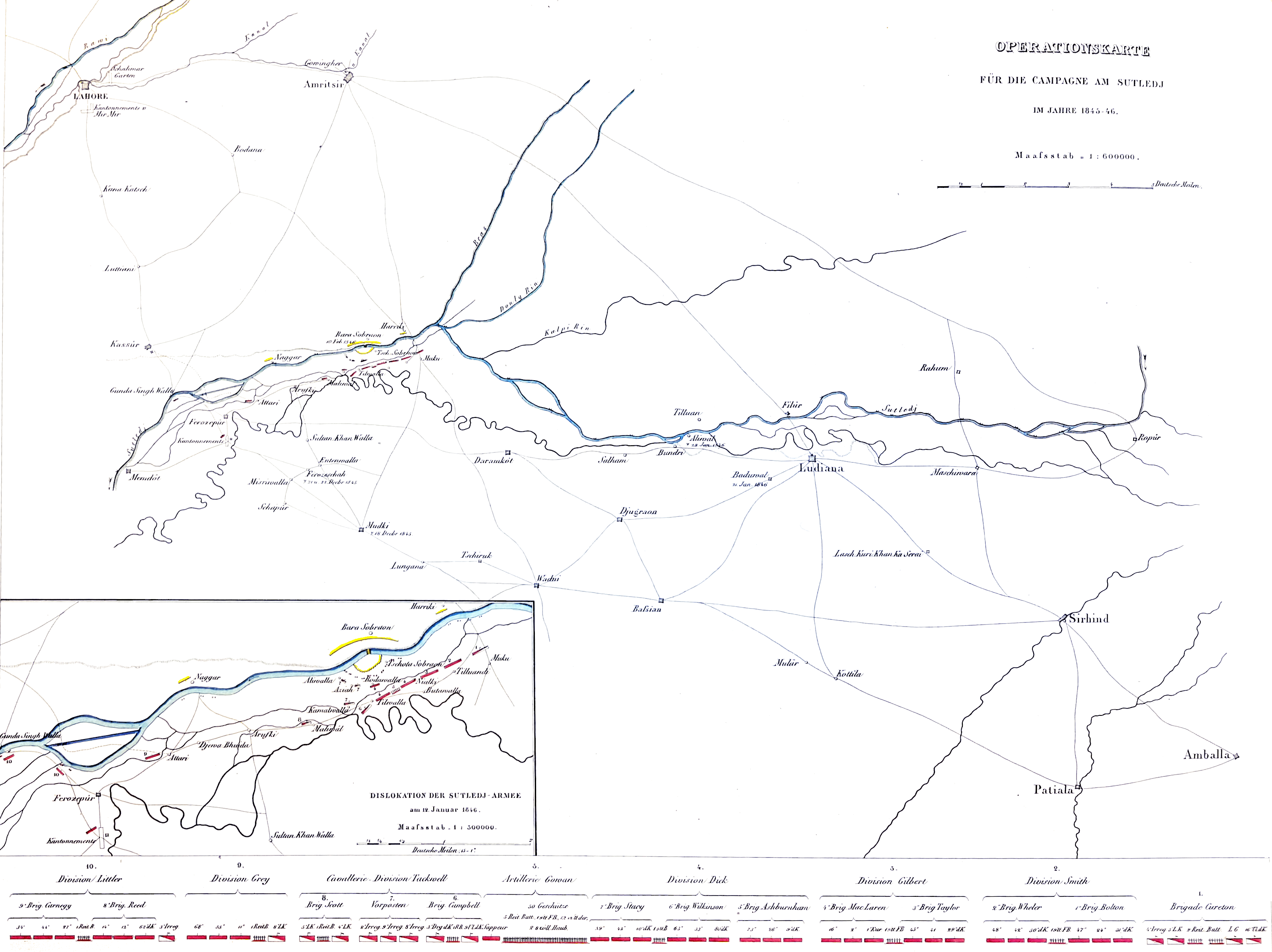 German map of the Theatre of the Sutlej campaign, 1845–46. Inset: Troop positions 1846-01-12.